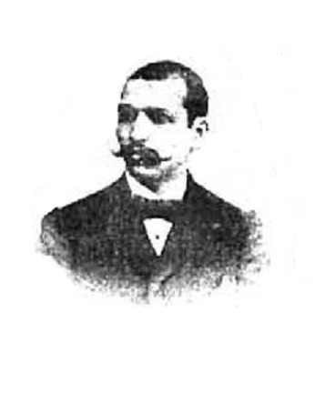 Modest Serra i Gonzàlez, in Barcelona Còmica magazine of 26.1.1895